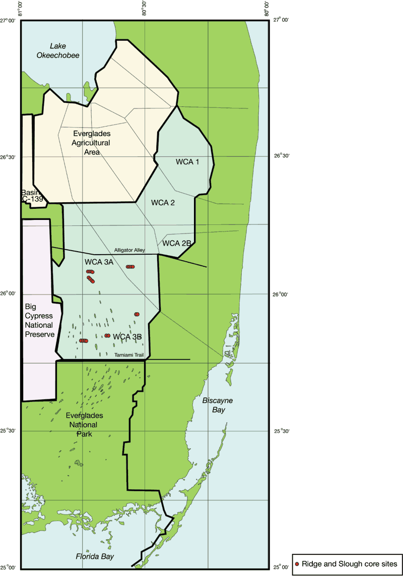 USGS Map of Compartmentalized Water Conservation Areas